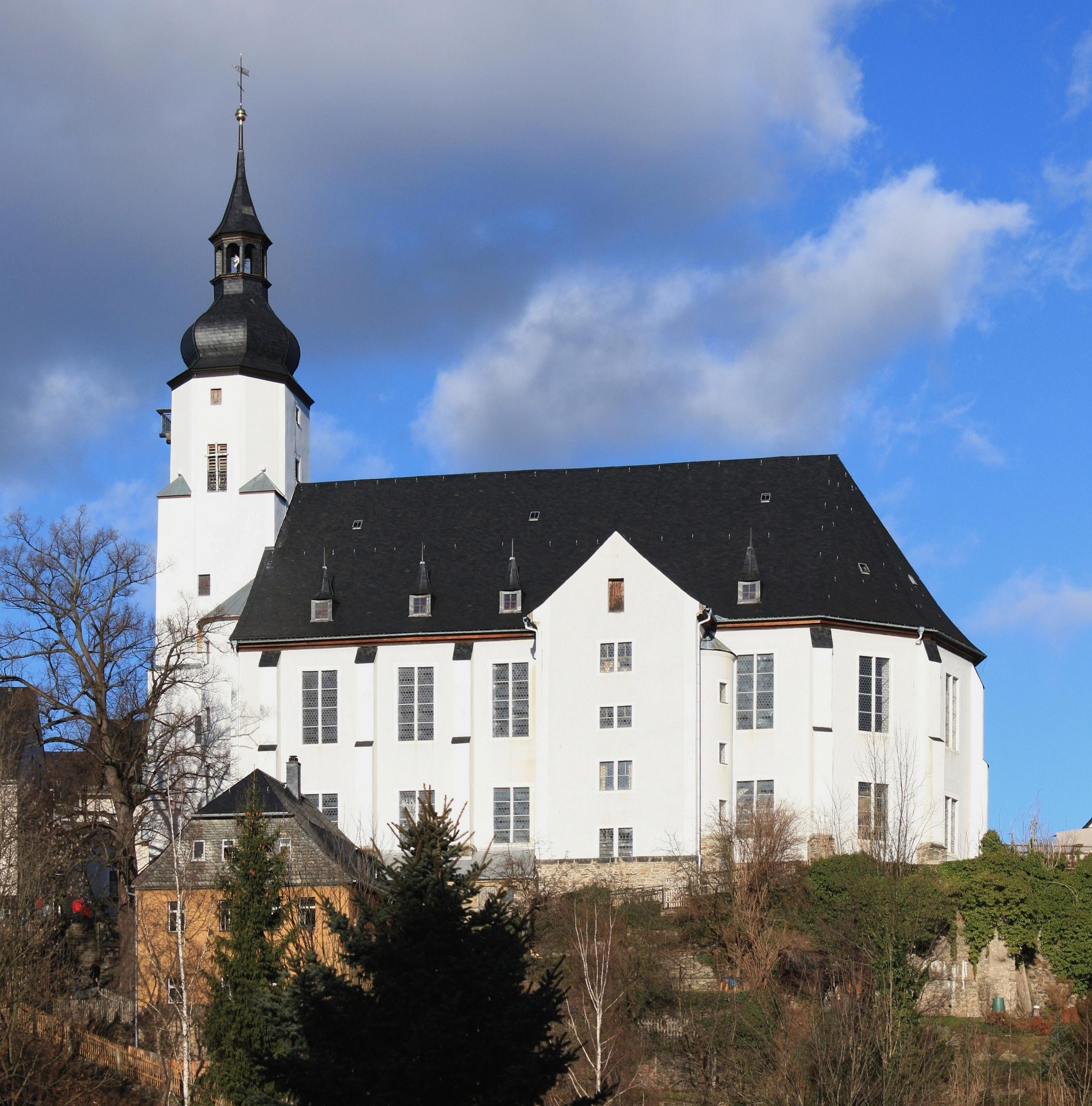 St.-Georgen Church, Schwarzenberg/Erzgebirge